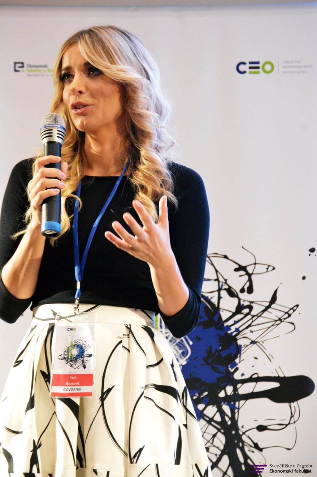 Fani Stipkovic speaking at the C.E.O. Conference in Zagreb, Croatia